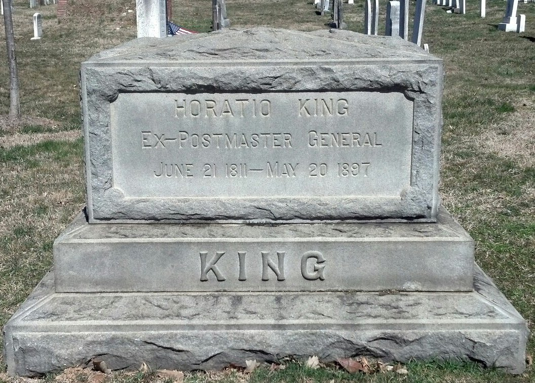 Horatio King, Postmaster General of the United States